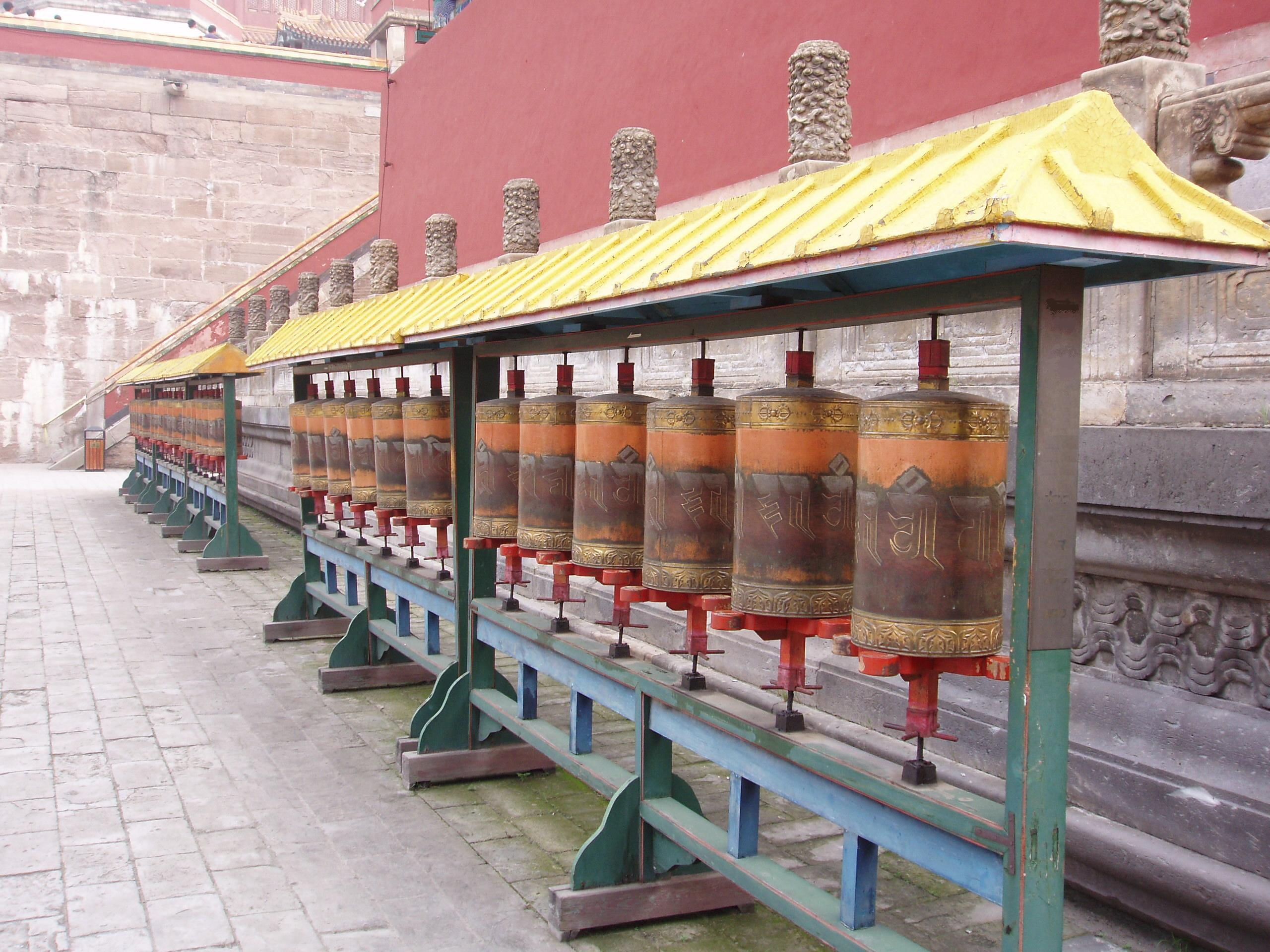 Turning wheels of Buddha's doctrine in Puning Temple, Chengde, China